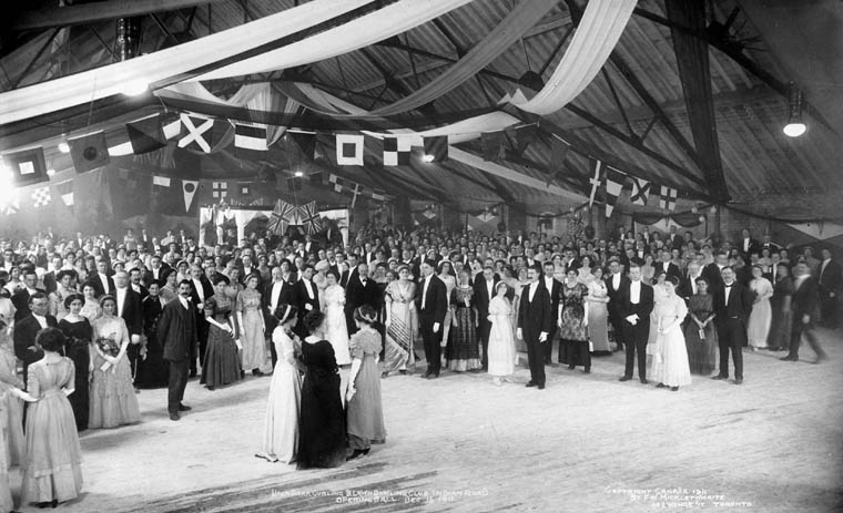 High Park Curling and Lawn Bowling Club, Indian Road, Opening Ball, December 15, 1911 (Toronto, Canada)